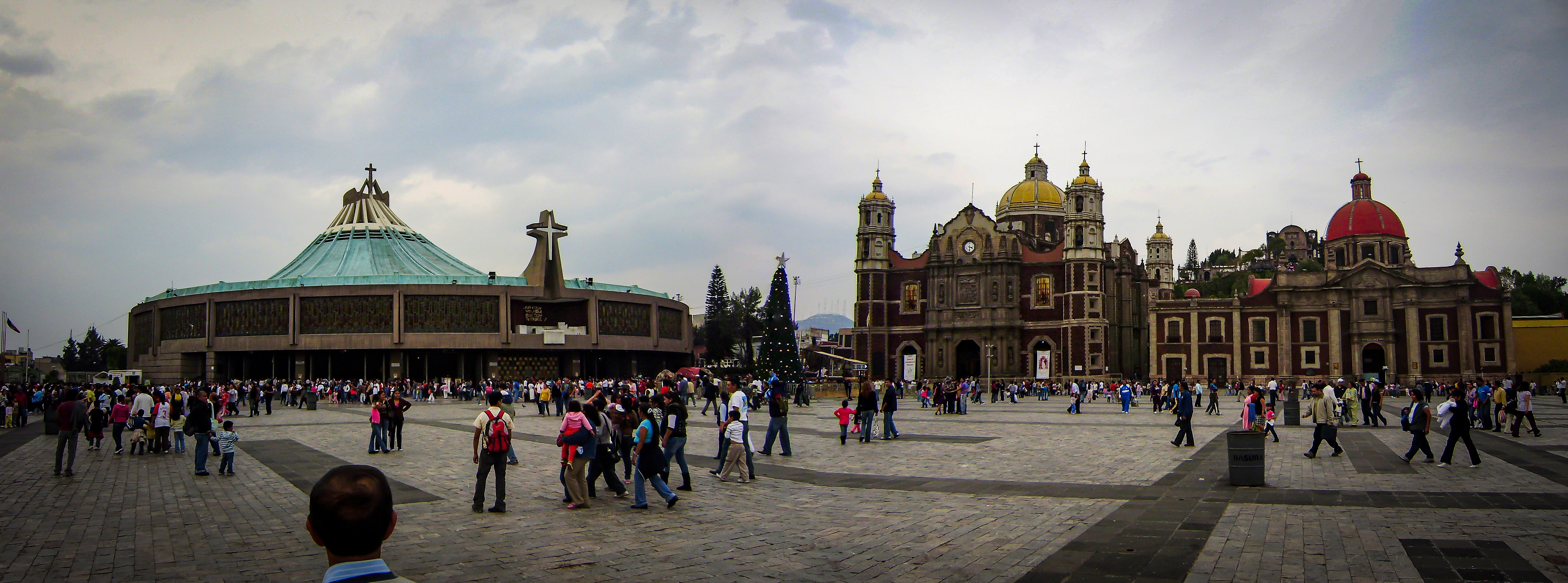 Panoramic view of Basilica of Our Lady of Guadalupe, Ancient Basilica, Capuchin nuns' Temple and Plaza Mariana. Mexico City.